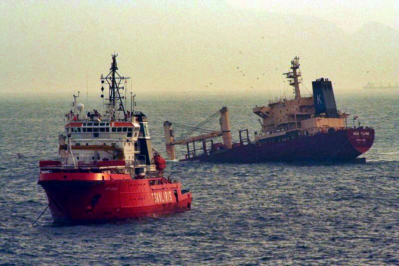 Salvage tug Fotiy Krylov (Фотиы Крылов) with M/V New Flame sinking off Europa Point, Gibraltar.